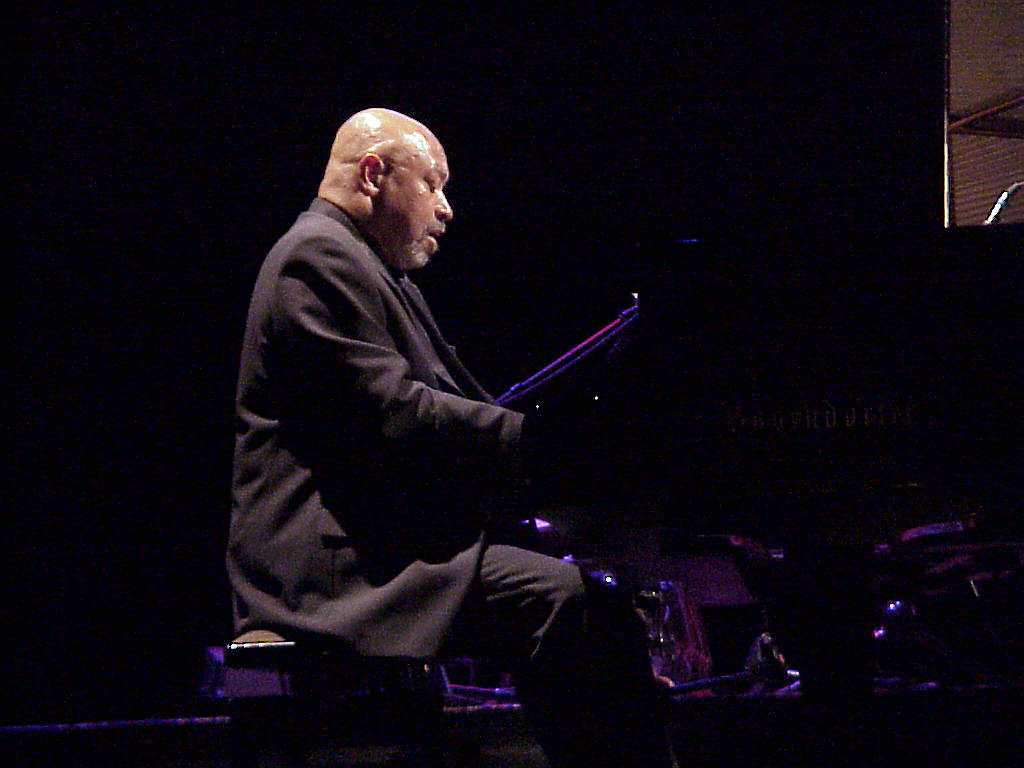 Kenny Barron 2001, Munich/Germany